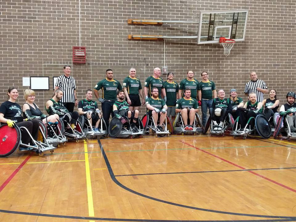 The Boise Bombers Wheelchair Rugby Team pose following its third annual Marine Toys For Tots match.